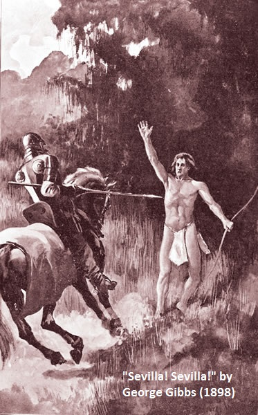 Spanish soldiers of the de Soto Expedition started to attack Juan Ortiz, who had been a captive of Native Americans for eleven years, when they first encountered him. Ortiz shouted out "Sevilla", his hometown, to show that he was Spanish.